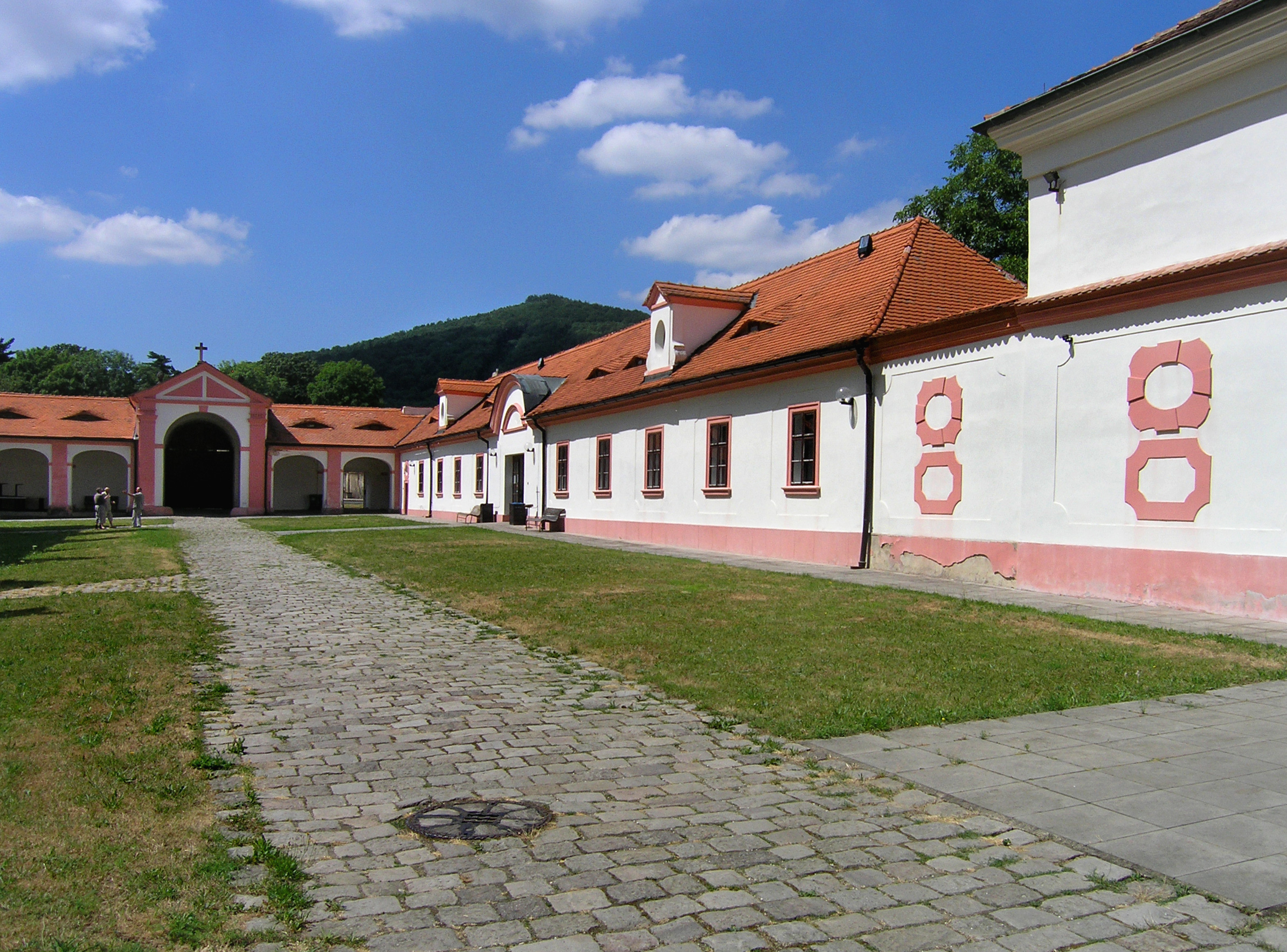 Osek Monastery in Osek town, Czech Republic